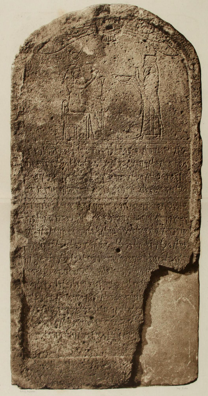 Yehawmilk Stele from the Corpus Inscriptionum Semiticarum